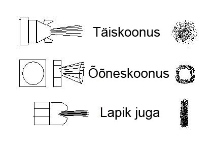 Result of using different air gun spray nozzles.